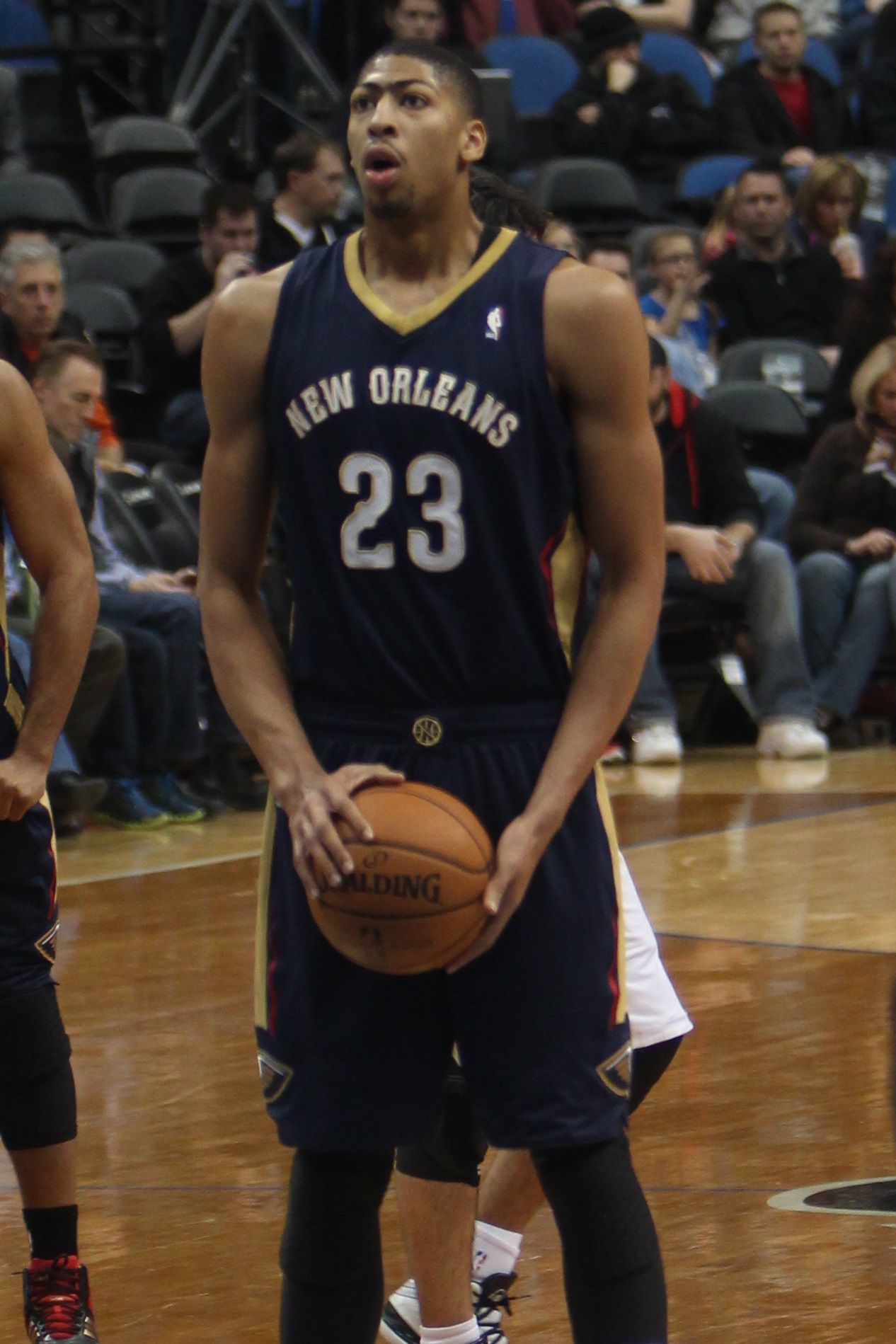 Anthony Davis (basketball) at the Target Center